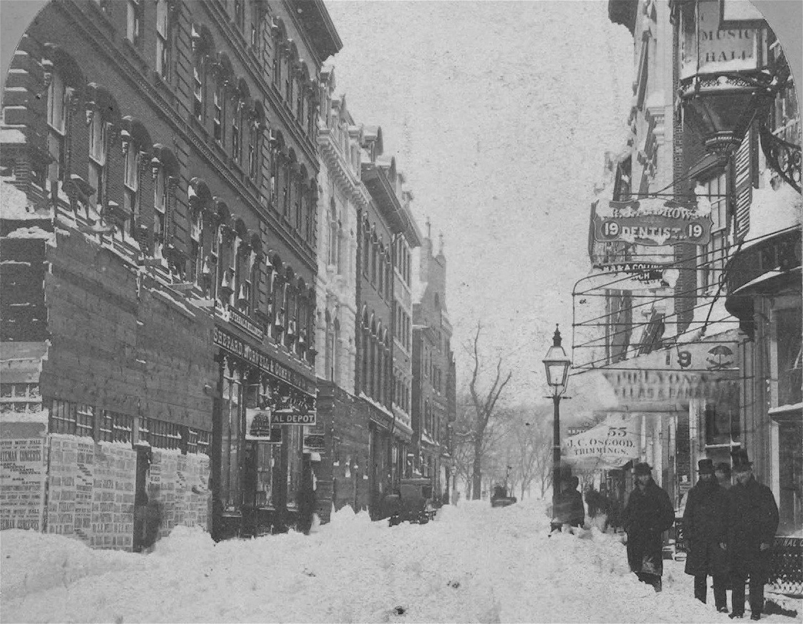 Winter Street, Boston, ca.1860s. Detail from stereoscopic view.